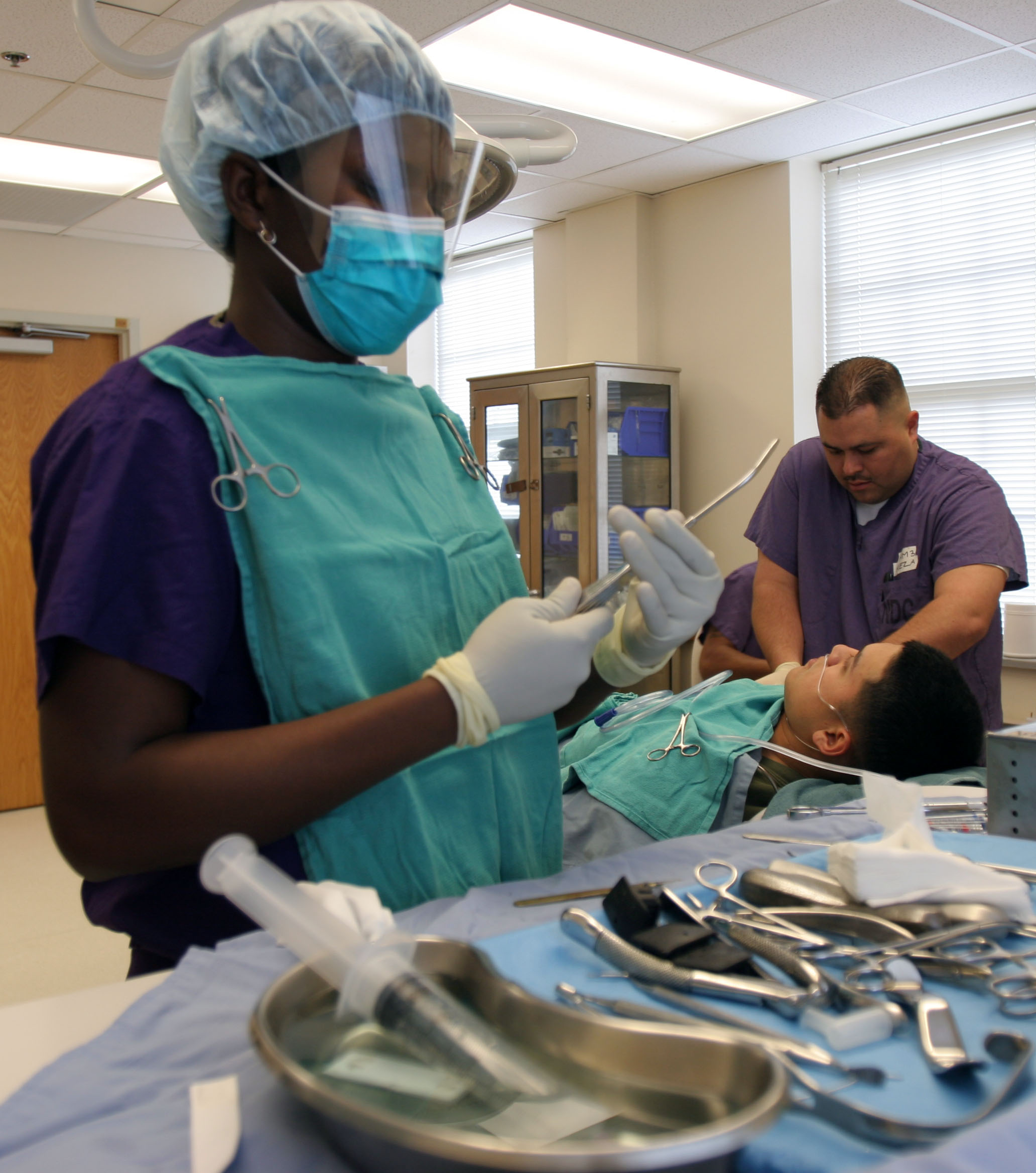 MARINE CORPS BASE CAMP LEJEUNE, N.C. (Feb 7, 2008) - Mrs. Yvonne M. Amarh, and Petty Officer 3rd Class Eric Meza prepare a dental patient for third-molar extractions. Amarh came to the United States from Ghana, Africa to work as a journalist, but instead switched to the dental surgery field. Meza grew up in a rough area of Los Angeles and joined the Navy to get out of the city. With the desire to be a doctor, Meza chose the dental field where he has worked for the past seven years. Amarh is a dental assistant and Meza is a surgical technician, both with 2nd Dental Battalion, 2nd Marine Logistics Group.